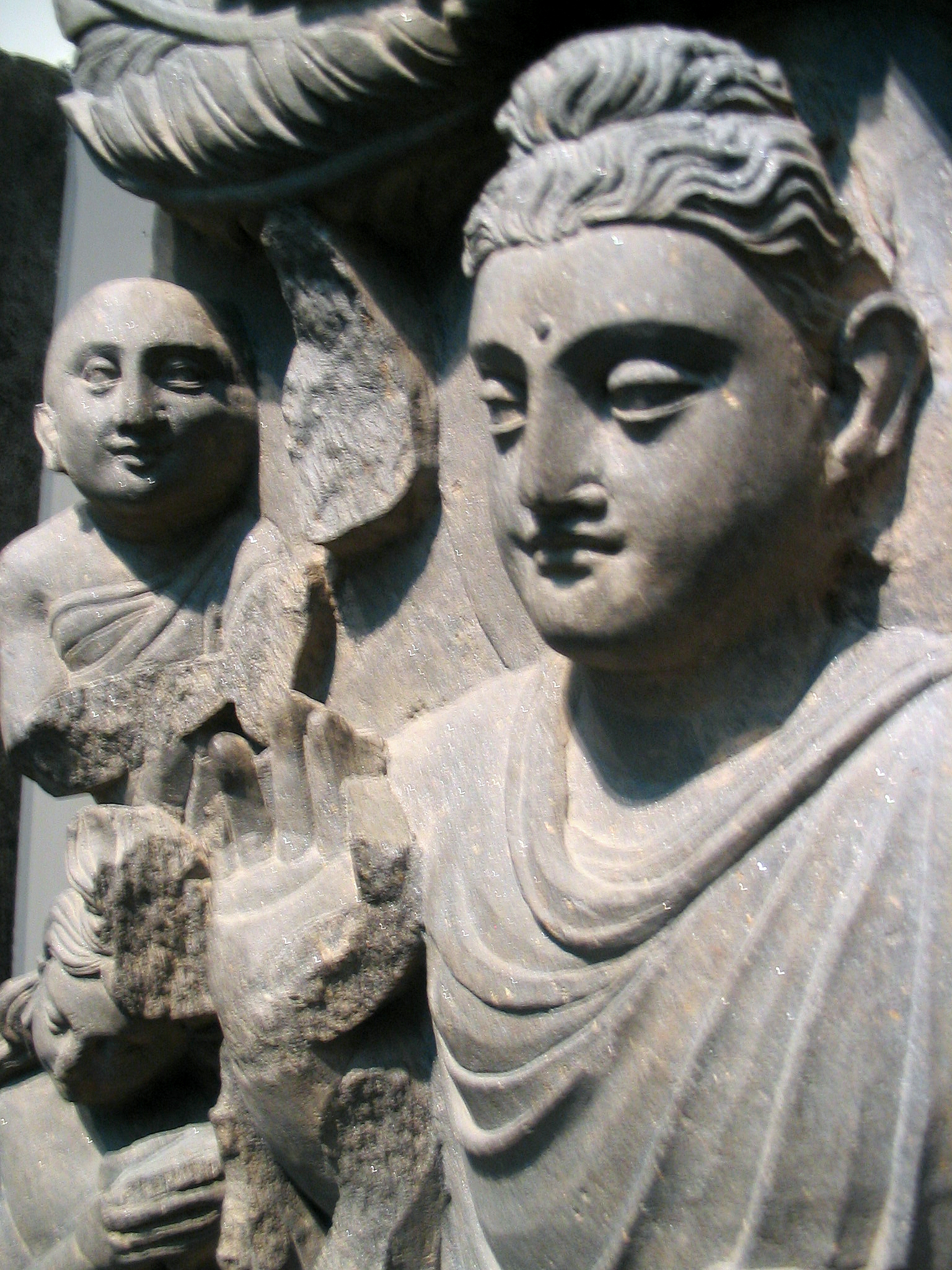 A large rock stupa from ancient Gandhara (present-day Pakistan-Afghanistan).